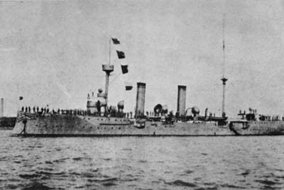 Hai Yung, a Chinese cruiser